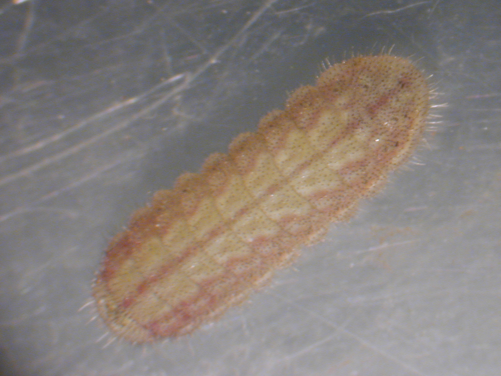 Canavalia pubescens (Lampides boeticus larva ex flower bud). Location: Maui, La Perouse